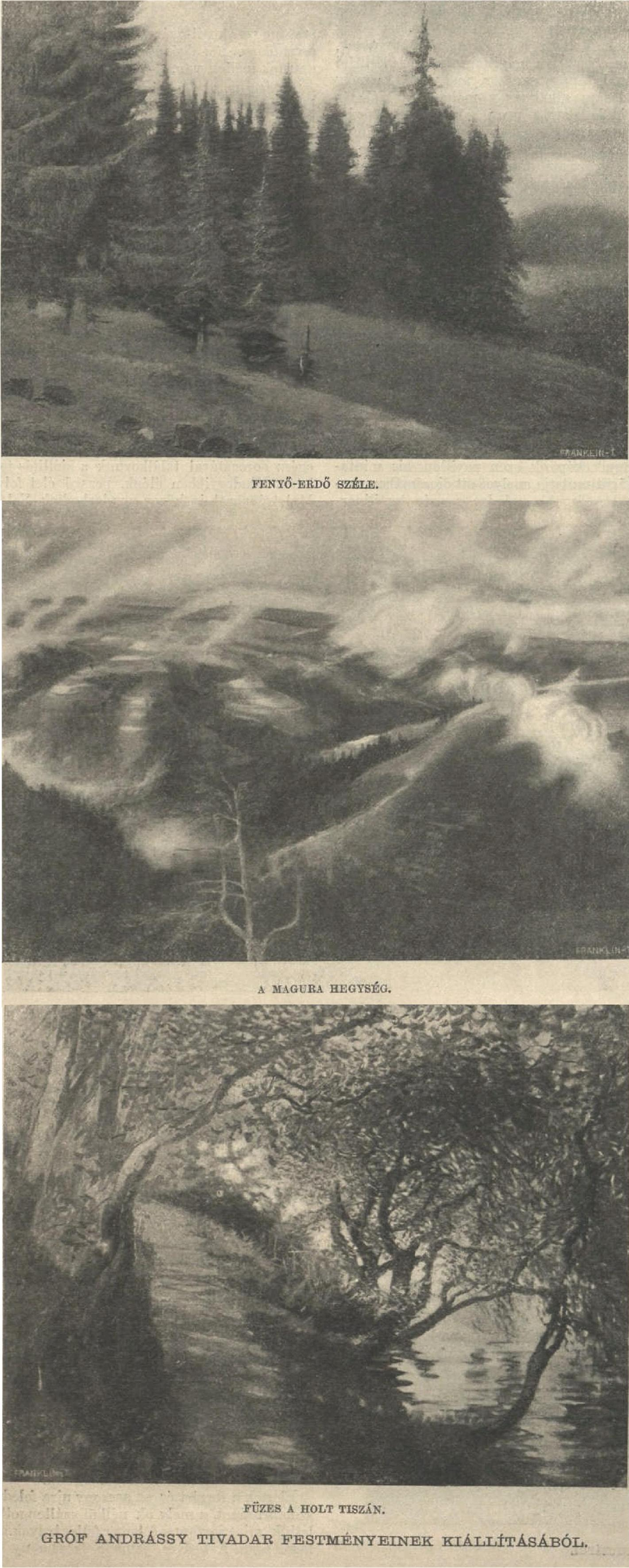 Paintings of Tivadar Andrássy